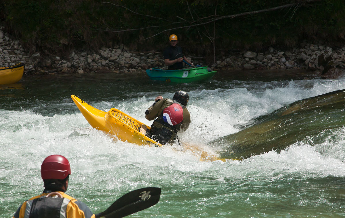 OC1 Freestyle/Rodeo, Eli Helbert, Team USA, training for the World Championships - Salza, Heliwelli, Wildalpen, Austria